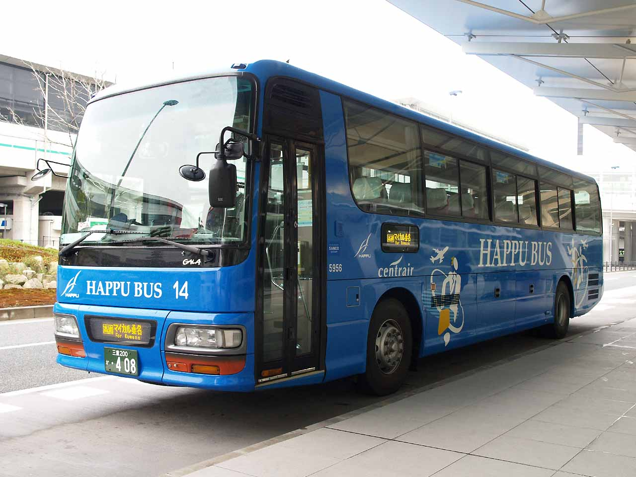 Fleet of Happu Bus, a group of Mie Kotsu, Airport shuttle bus between Centrair and Kuwana, Mie. Model: Isuzu Gala I KL-LV781R2 License plate: MIM200 KA-408（三重200か・408） Place: Chubu International Airport: Centrair, Tokoname city, Aichi Japan